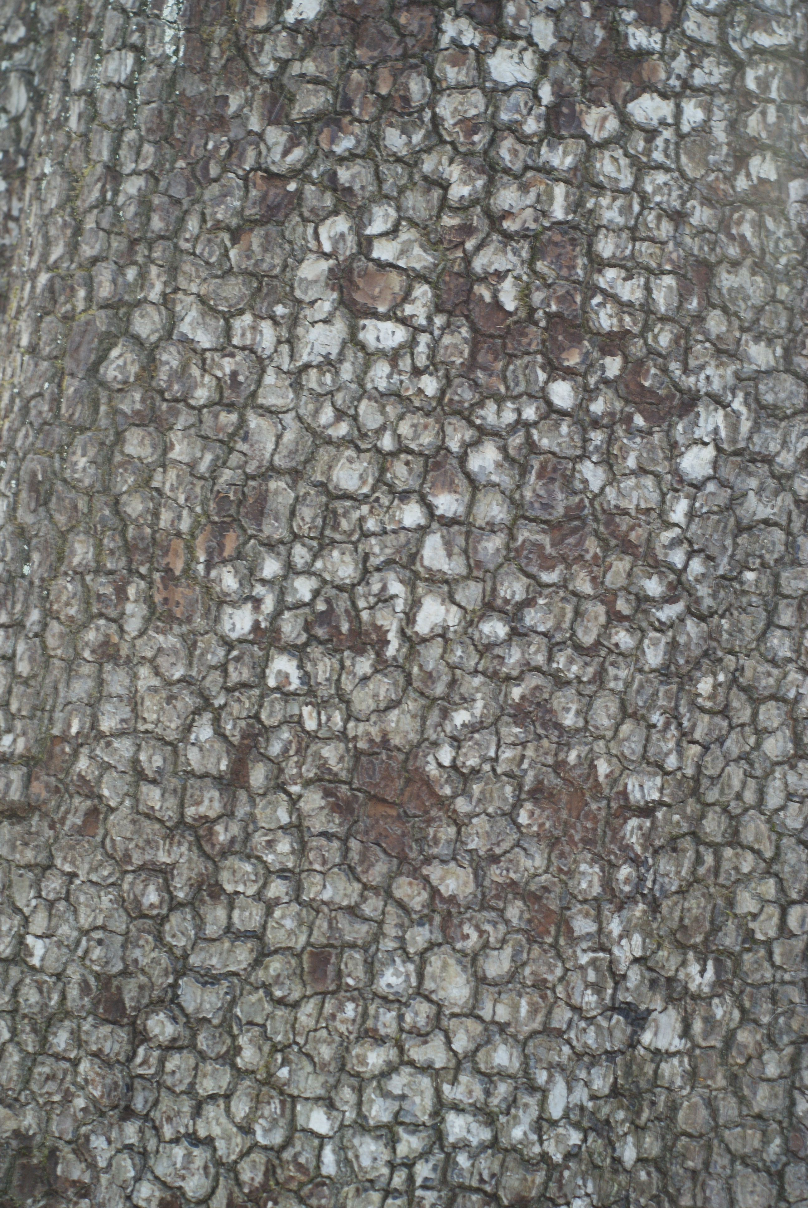 Bark of "Gelbmöstler", a pear variety which can be found mainly in the Bodensee region (D, AU, CH) an in northern Switzerland.